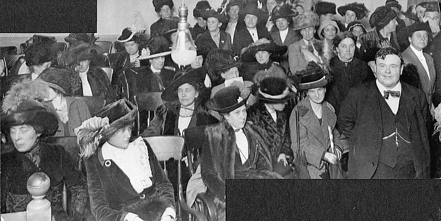 Crowd of women in Portland, Oregon register for jury duty after gaining right to vote, 1912. Members of crowd include Marie Equi and "Mrs. Henry W. Coe [...] a well-known suffragist and advocate of a woman’s right to use birth control."